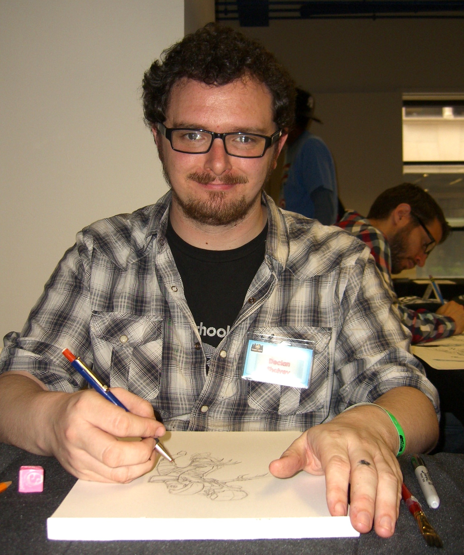 Comics creator Declan Shalvey at the Big Apple Convention in Manhattan, May 21, 2011. Photographed by Luigi Novi. This photo is not in the public domain. It may, however, be used, modified and published for any purpose, free of charge, only if the photographer is properly credited, either by linking the photograph to this page, or with an easily visible credit to the photographer placed near the photo in each instance in which it is used. (See licensing information below.) Publication of this photo without this proper attribution constitutes copyright infringement. If you have any questions, you can contact me on my Wikipedia Talk Page.